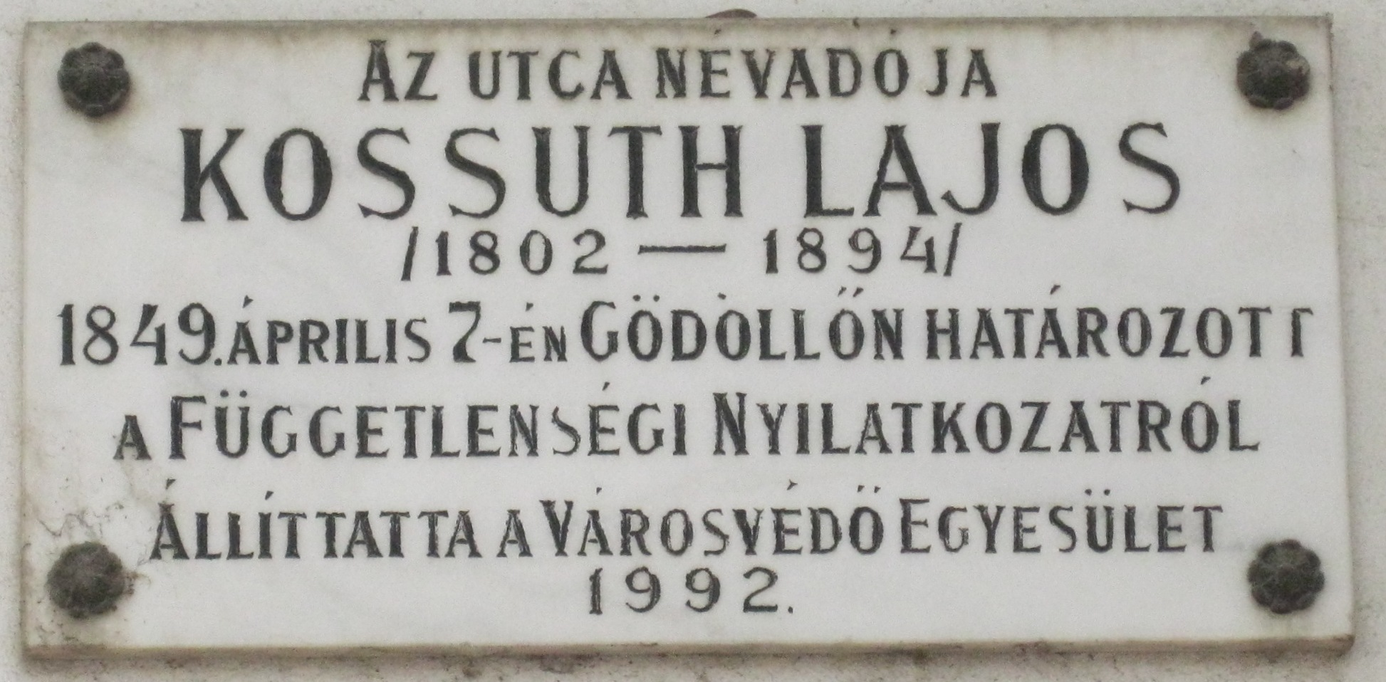 Commemorative plaque of Lajos Kossuth in Gödöllő, Kossuth Lajos Street No 2